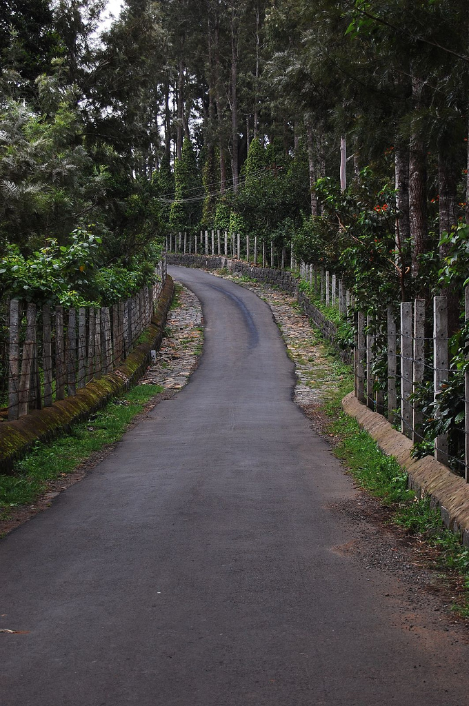 A quiet road in Yercaud